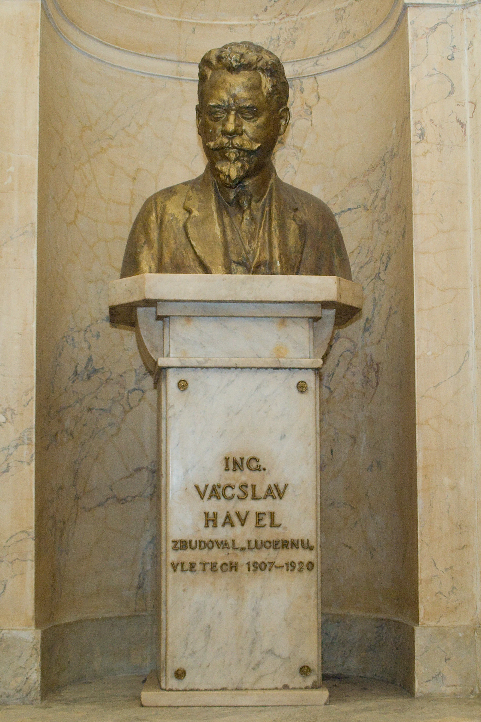 Bust of Czech businessman Vácslav Havel located in the Lucerna Palace, inaugurated 1921, sculptor Jan Štursa